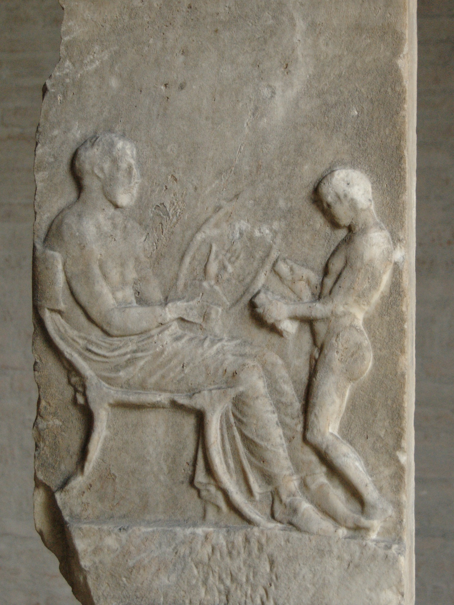 Funerary relief with a lyre player. A young boy, reading in a book role, recites a poem on the melody. Magna Graecia (South Italia), ca. 420 BC.